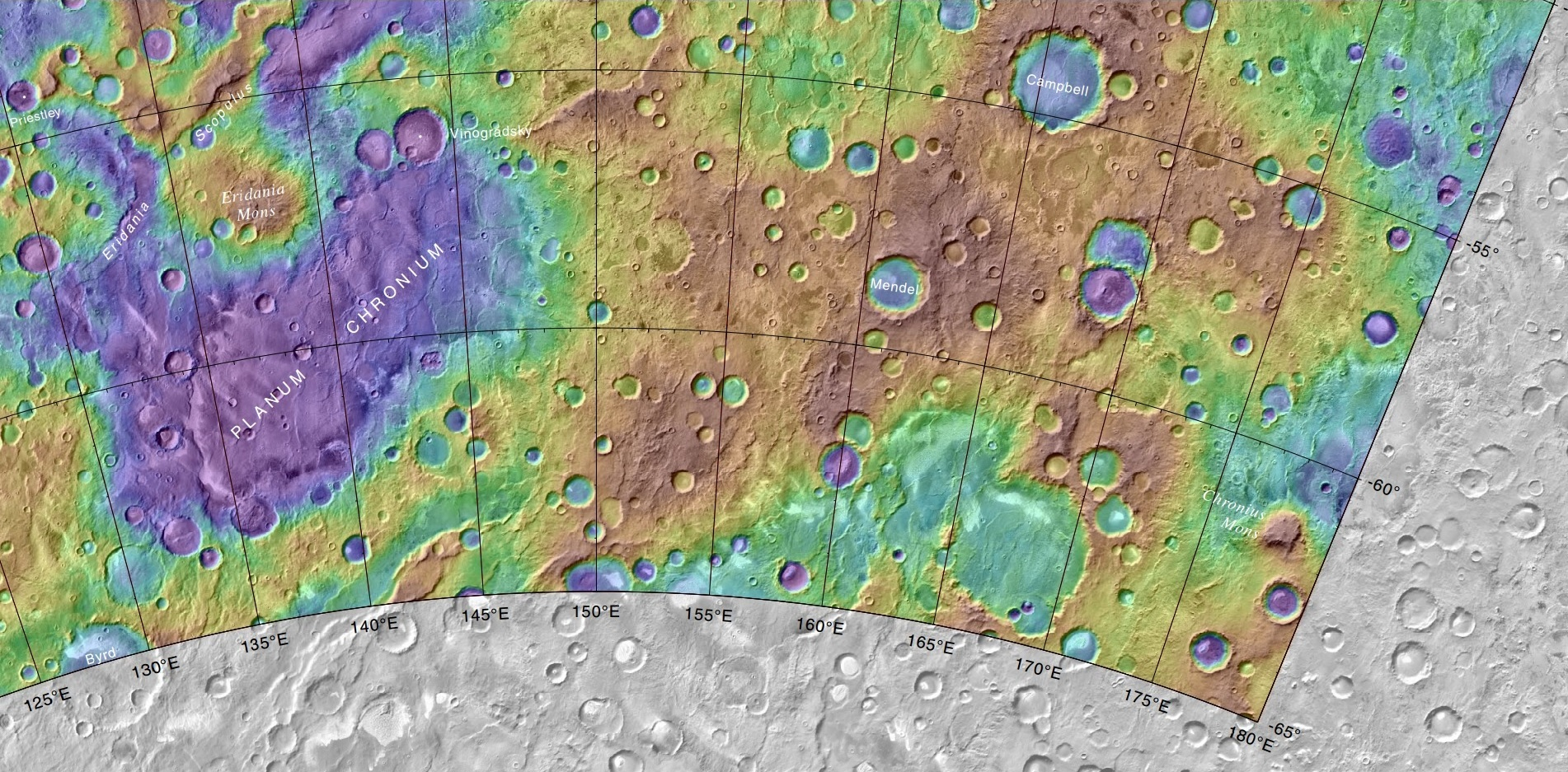 Mola map showing Campbell crater and other nearby craters